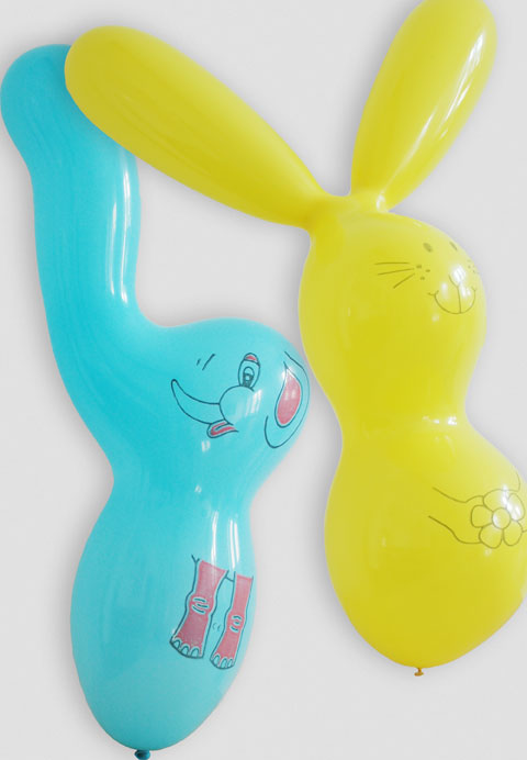 Toy balloons (figurines)